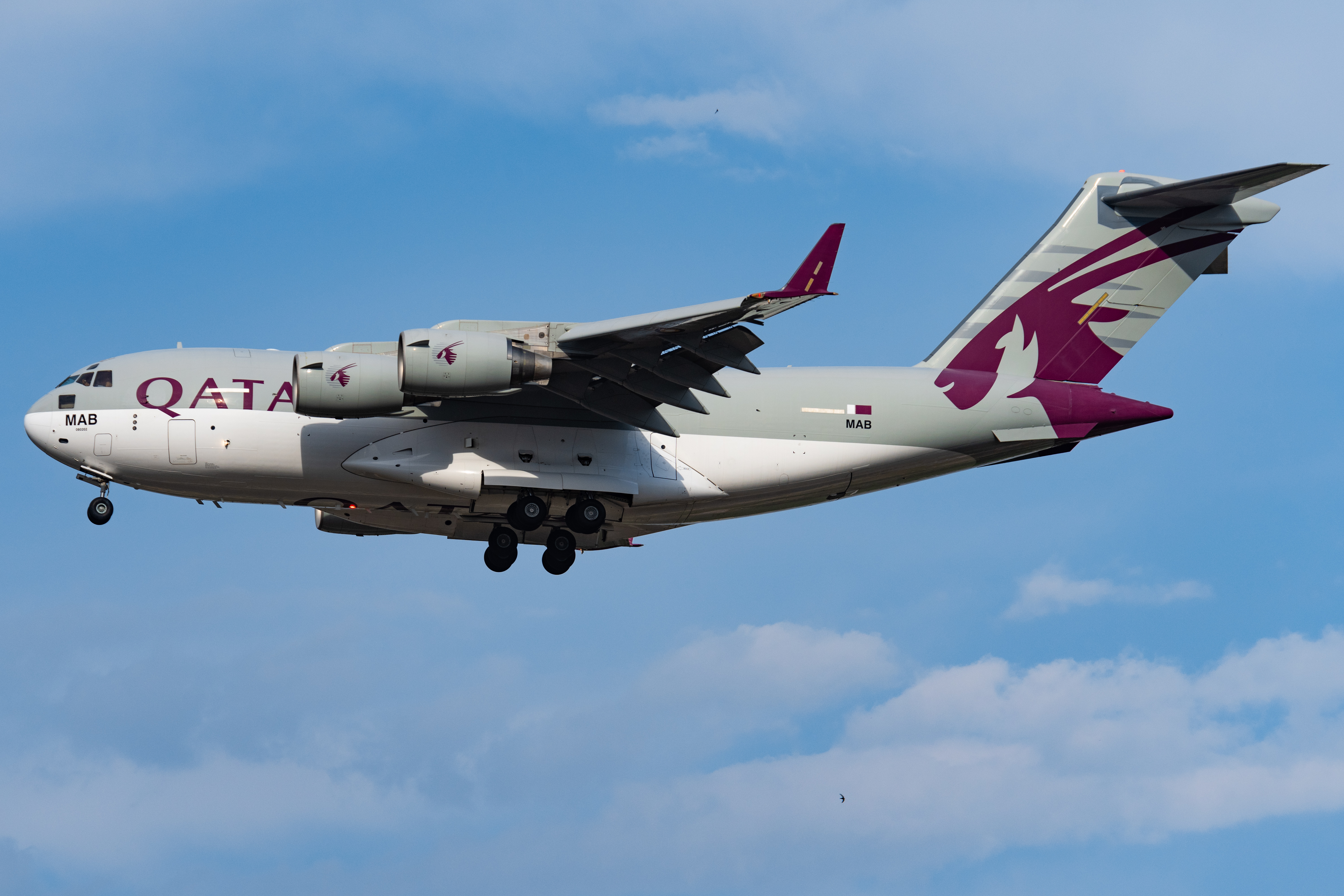 LHOB257 from Doha, landing at runway 01. Pretty funny for this "Qatar Airways" cargo flight...